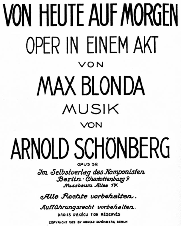 Arnold Schoenberg - Von heute auf morgen - titlepage of the score - 1929